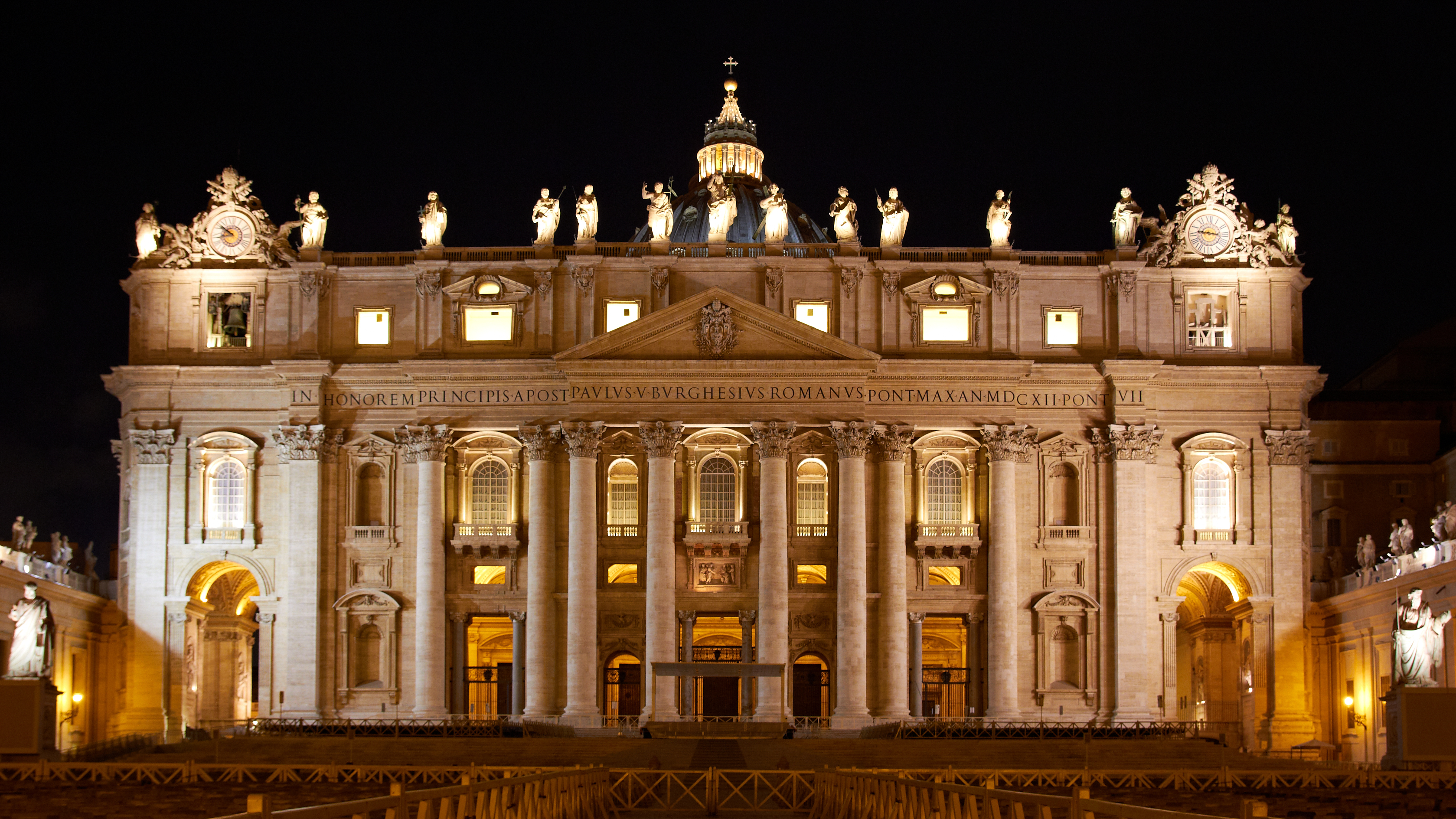 St. Peter's Basilica in the Vatican